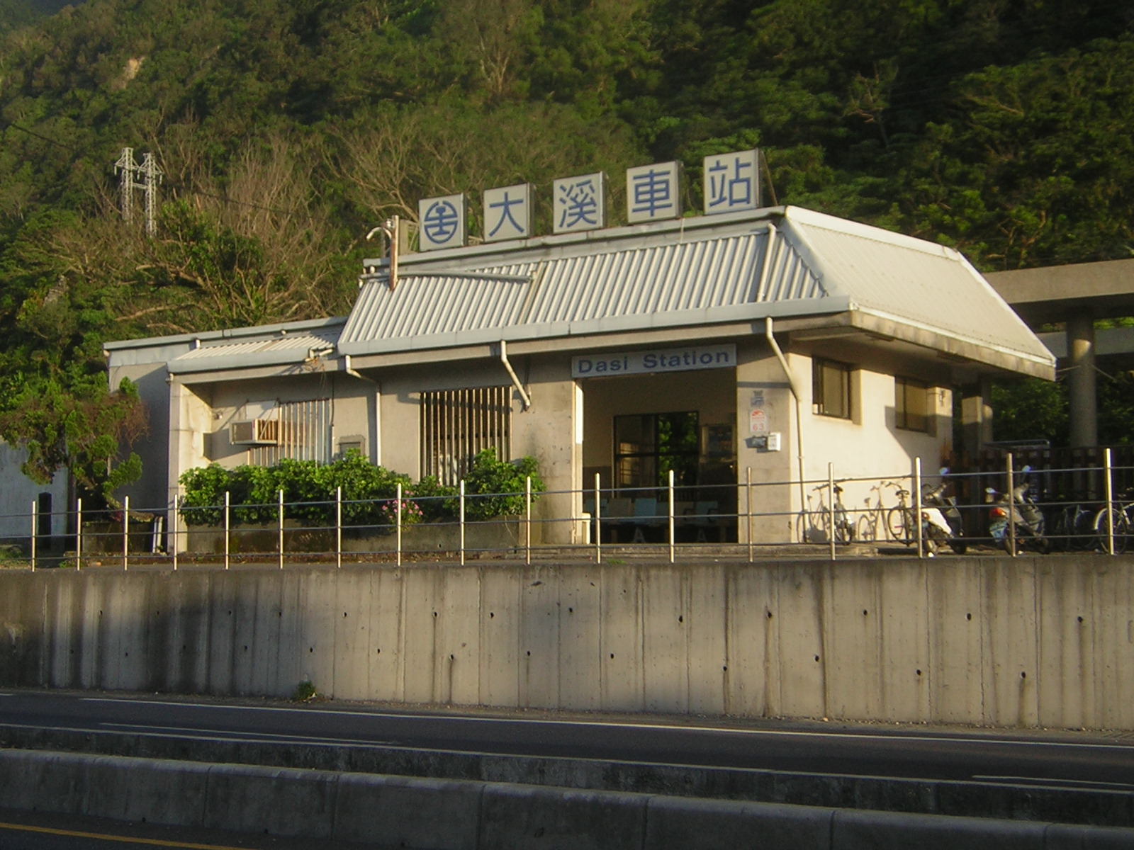 Dasi Station of Taiwan Railway Administration at Yilan County.